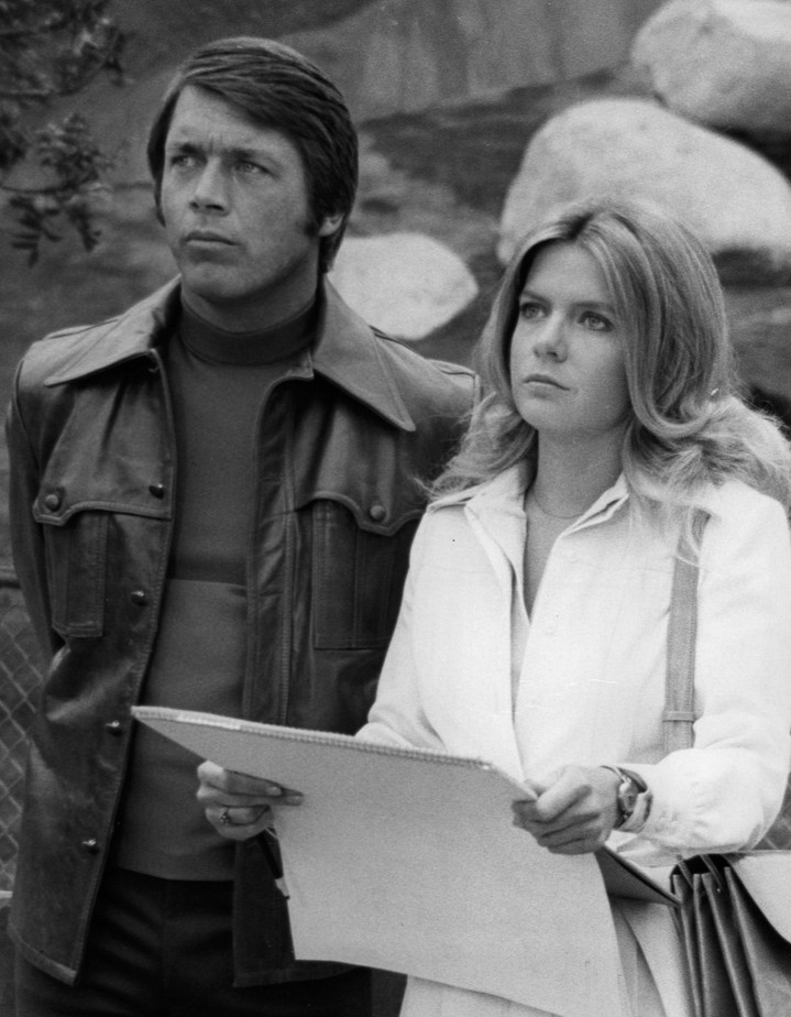 Photo of Chad Everett as Joe Gannon and guest star Meredith Baxter from the television program Medical Center.